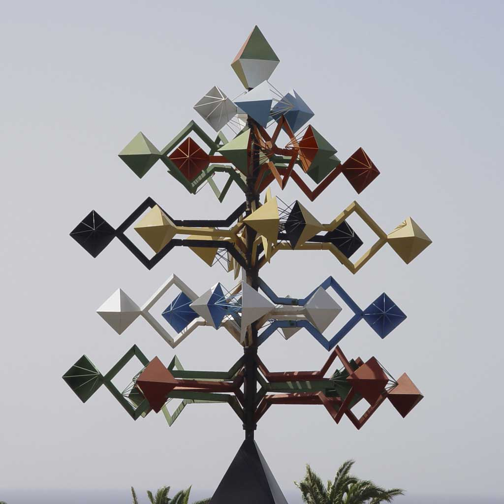 Wind sculpture Manrique, Lanzarote